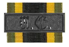 Dienstauszeichnung